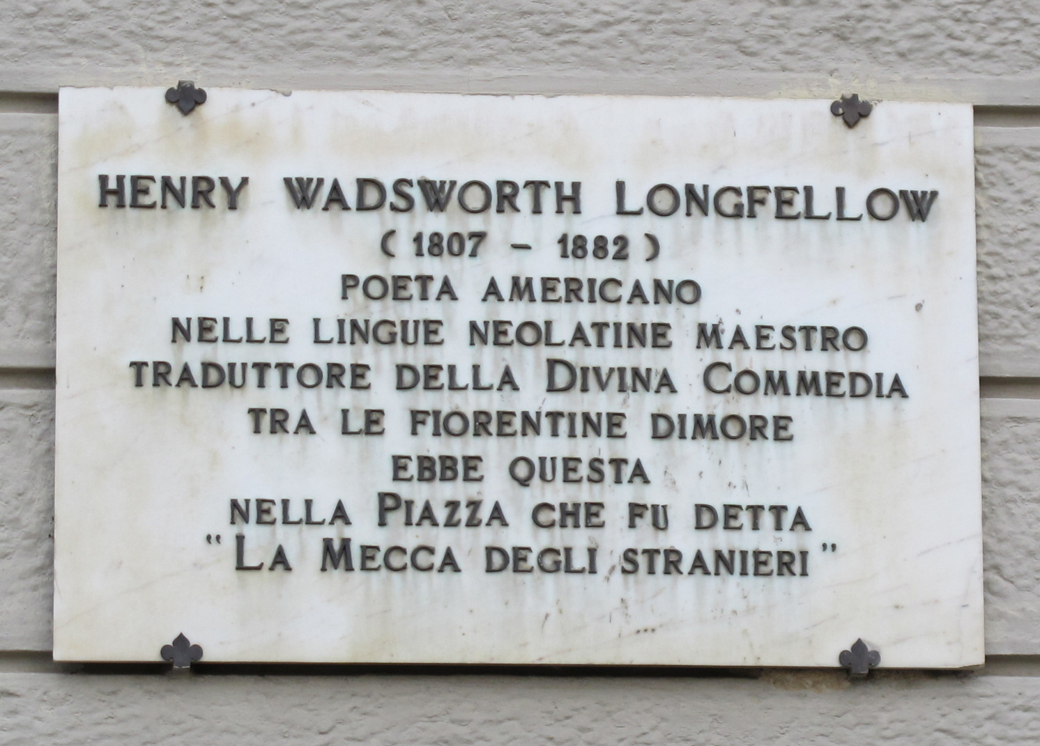 Piazza smn, targa henry wadsworth longfellow